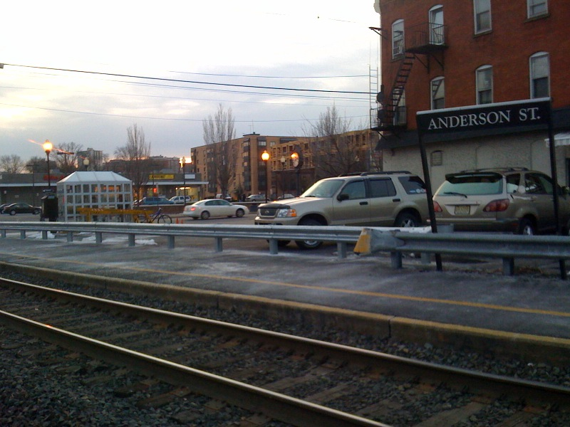 NJT's Anderson Street Station in January 2010